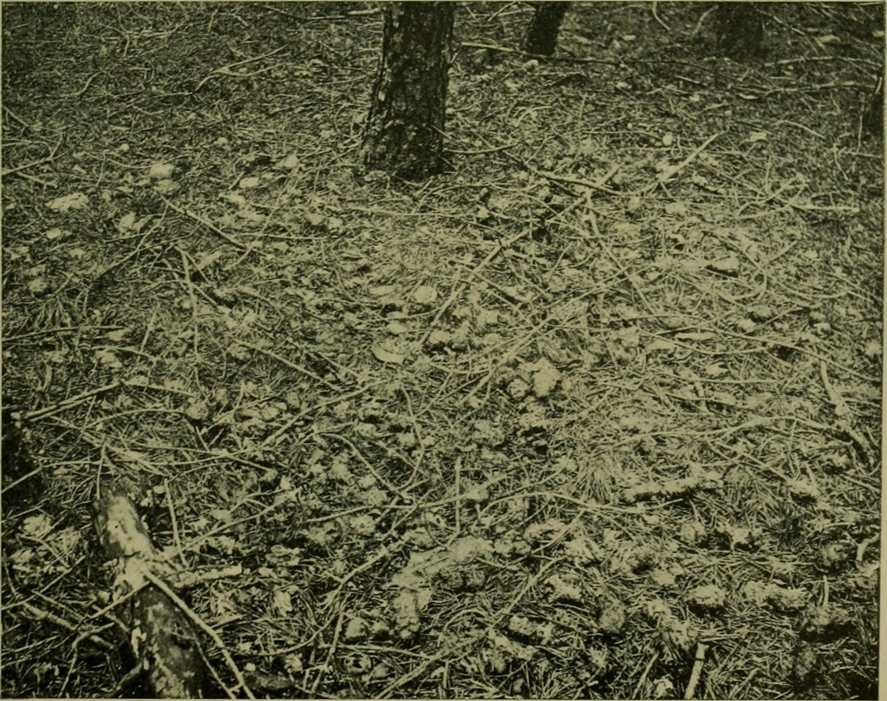 Title: Bird lore Year: 1899 (1890s) Authors: National Committee of the Audubon Societies of America National Association of Audubon Societies for the Protection of Wild Birds and Animals National Audubon Society Subjects: Birds Birds Ornithology Publisher: New York City : Macmillan Co. Text Appearing Before Image: Casts or pellets disgorged by the Barred Owl. The skulls and other bones of meadow mice maybe plainly seen. A coin has been introduced into the picture to show comparative size Text Appearing After Image: View beneath a tree frequented by a Barred Owl. Showing disgorged casts which containeronly the remains of mice THE FOOD OF THE BARRED OWLTwo photographs made by H M. Stephens, at Carlisle Pa (15) The Migration of Flycatchers SECOND PAPER Compiled by Professor W. W. Cooke, Chiefly from Datain the Biological Survey With drawings by Louis Agassiz Fctertes and Bruce Horsfall COUCHS KINGBIRD This is a species of wide distribution in Mexico, but it ranges north in summerbarely to the United States, near the mouth of the Rio Grande in southernTexas. It was first seen May 8, 1877 and April 30, 1878; the earliest recordsfor eggs are May 20, 1891, May 16, 1893 and May 13, 1894. ARKANSAS FLYCATCHER This is the commonest and best known of the large Flycatchers of the West.It deserts the United States in winter and is found at that season in Mexico andGuatemala. SPRING MIGRATION PLACE Kerrville, Tex Rockport, Tex Central Kansas ....Central Nebraska . .Northern North Dakota .Old Wives Creek, Sask.